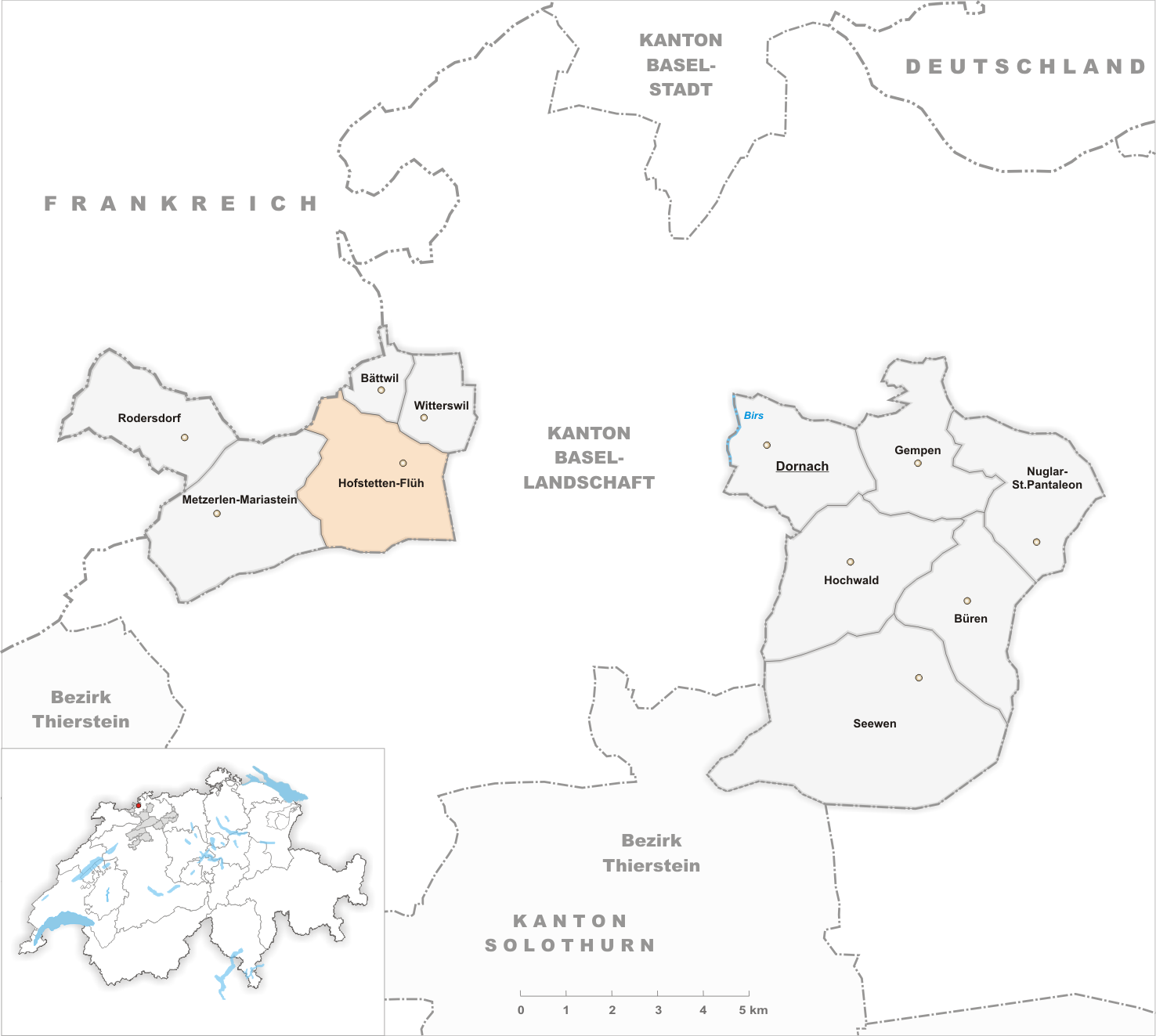 Municipality Hofstetten-Flüh